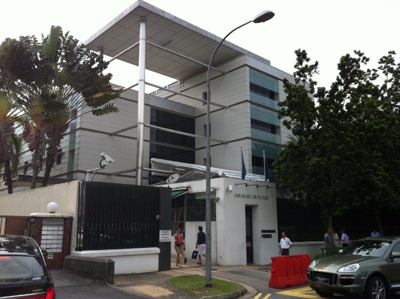 The Embassy of France in Singapore, taken during voting in the first round of the French presidential elections, 2012.